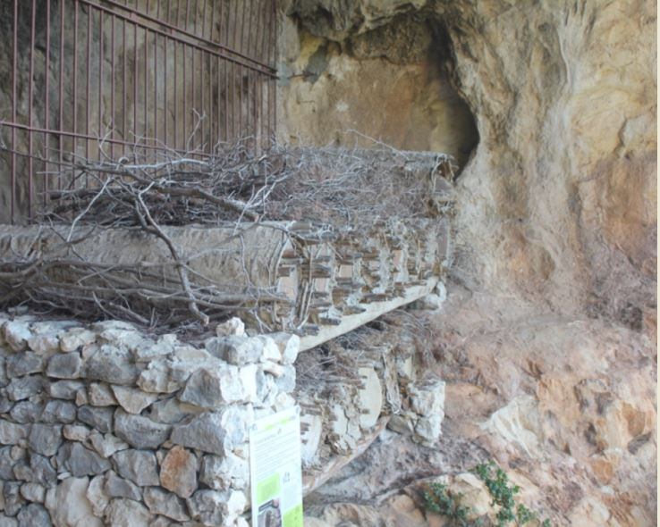 Abrigos de Barfaluy, Arnales